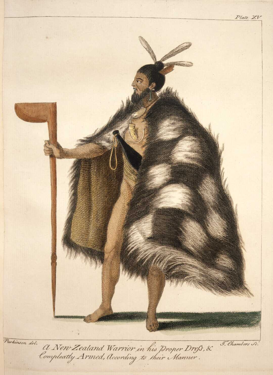 Parkinson, Sydney, 1745-1771 :A New Zealand warrior in his proper dress & compleatly armed according to their manner. Parkinson del. T. Chambers sc. [London, 1784] Reference Number: PUBL-0037-15 A standing portrait of a Maori man, holding a tewhatewha in his outstretched left hand. He has a topknot hairstyle, and feathers in his hair, a fine dogskin cloak in a chequered pattern, a patu tucked into his belt and bone ornaments at his neck. Key terms: 1 image, categorised under Engravings and Portraits, related to Thomas Chambers, Sydney Parkinson, Men, Maori, Weapons, Maori, Maori - Clothing and Cook, James 1728-1779 - Voyages, 1st, 1768-1771. Part of: Parkinson, Sydney, 1745-1771 :A journal of a voyage to the South Seas, in his Majesty's ship, 'The Endeavour'. Faithfully transcribed from the papers of the late Sydney Parkinson. London; Printed for Charles Dilly, in the Poultry, and James Phillips, in t, Reference Number PUBL-0037 (8 digitised items) Extent: 1 colour art print(s)Engraving, hand-coloured, 227 x 184 mm. Single art work Conditions governing access to original: Not restricted Other copies available: File PrintIn Drawings & Prints under Artist/Title (DFP-005727) Usage: You can search, browse, print and download items from this website for research and personal study. You are welcome to reproduce the above image(s) on your blog or another website, but please maintain the integrity of the image (i.e. don't crop, recolour or overprint it), reproduce the image's caption information and link back to here ( If you would like to use the above image(s) in a different way (e.g. in a print publication), or use the transcription or translation, permission must be obtained. More information about copyright and usage can be found on the Copyright and Usage page of the NLNZ web site.